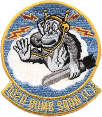 102d Bombardment Squadron - Emblem